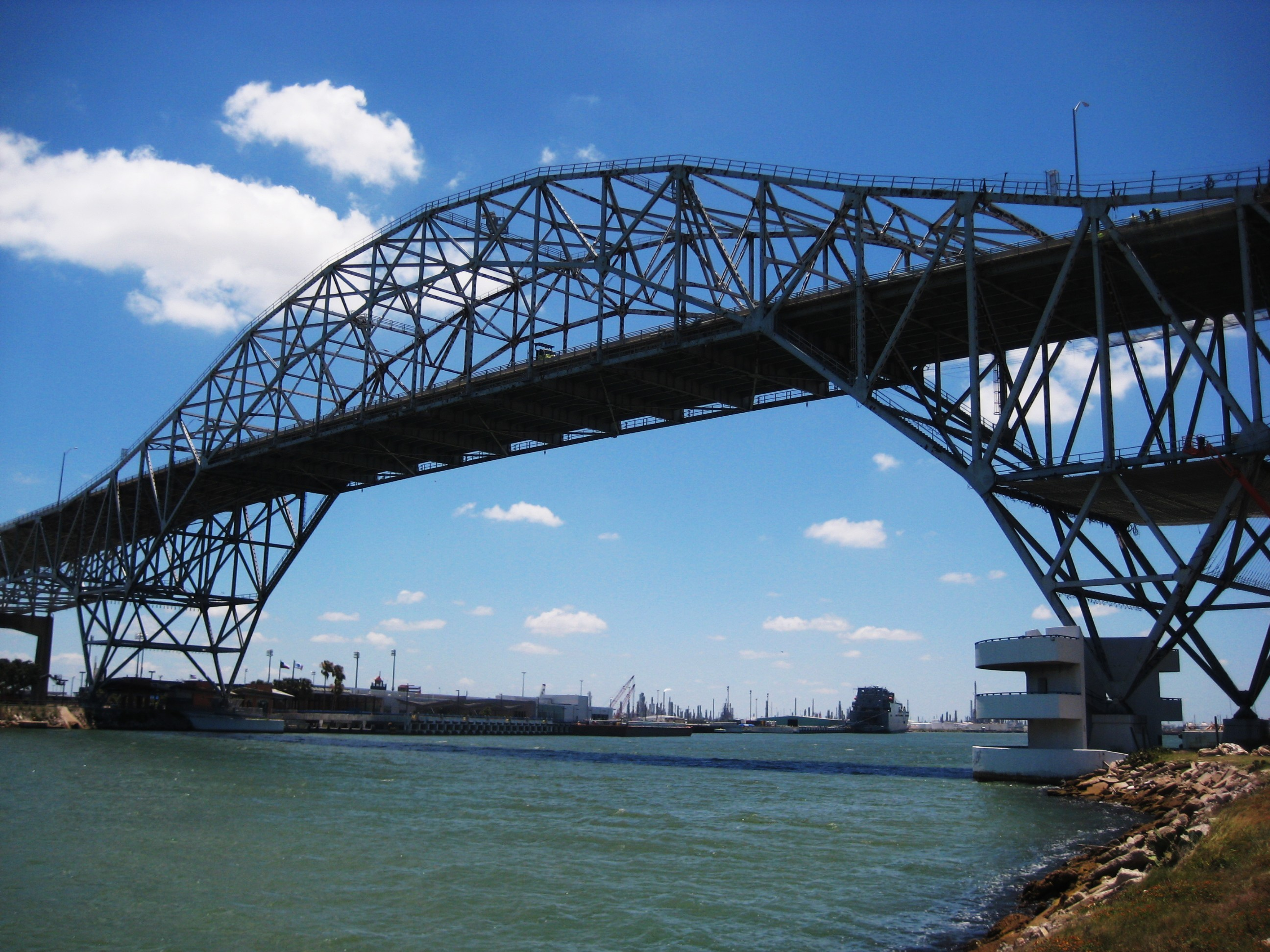 The bridge crossing into Corpus Christi.